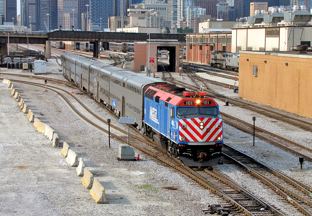 Metra SouthWest Service train 827 passes 18th Street on its way to Orland Park 179th street behind Metra 101.